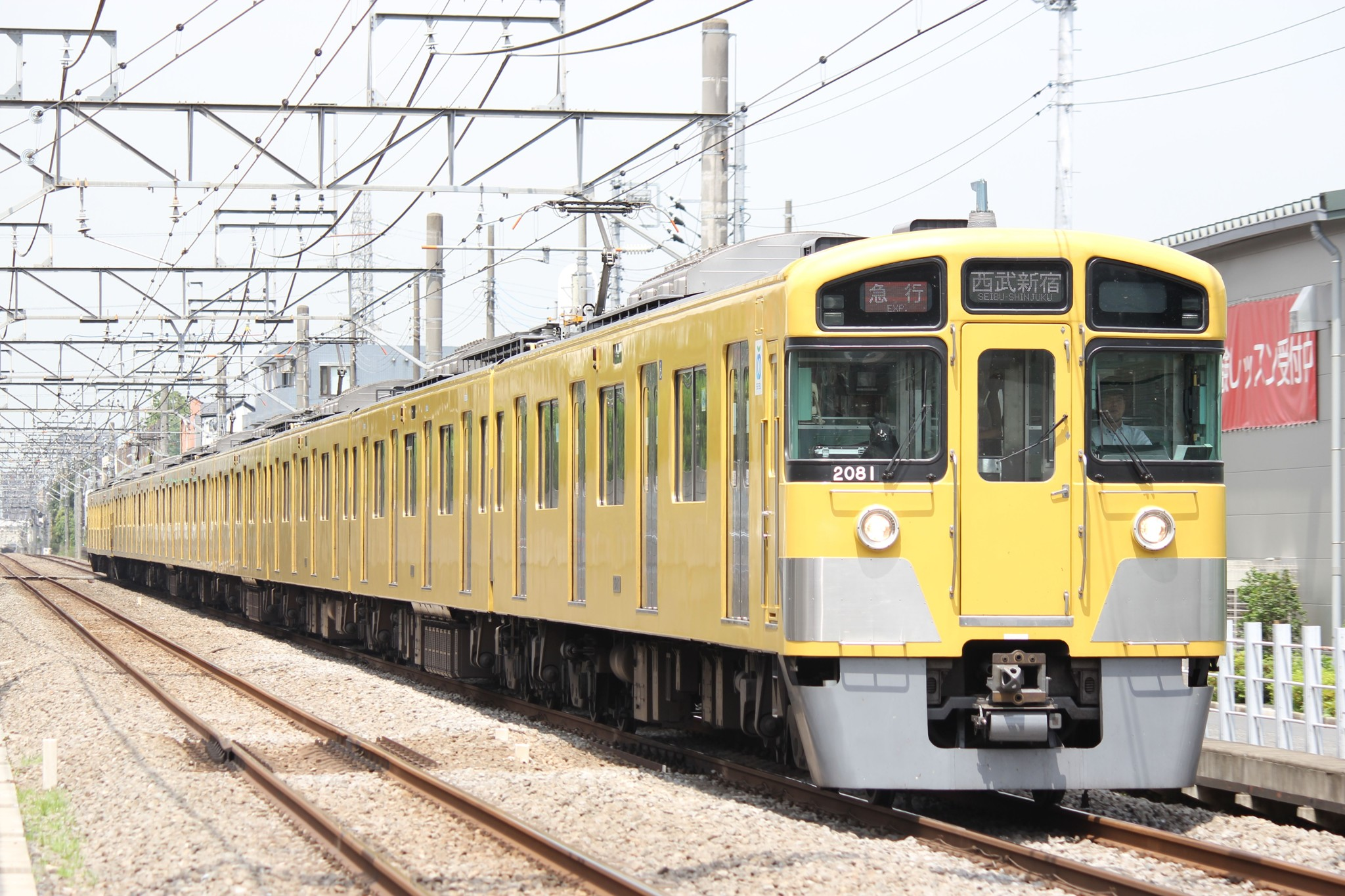 Seibu Railway 2000 series EMU set 2081 between Musashiseki and Kamishakuji stations on a Seibu Shinjuku Line express service to Seibu Shinjuku